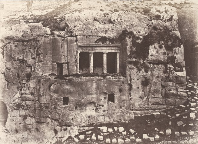 Tomb of St. James, Valley of Josaphat, Jerusalem.